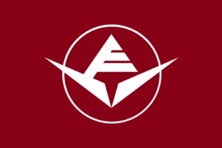 Flag of Naganohara Gunma